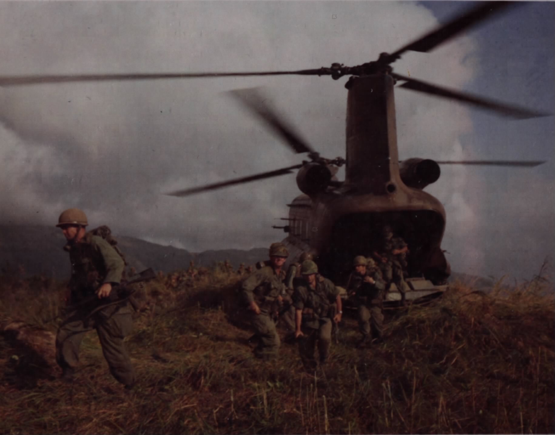 OPERATION MASHER. A CH-47A Chinook brings main body of 3rd Brigade troops into secured LZ 5, a mountain ridge.